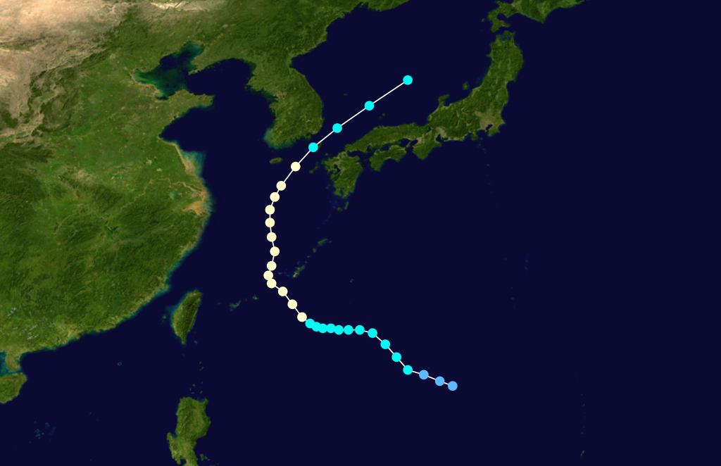 Typhoon Holly 1984 track. Uses the color scheme from the Saffir-Simpson Hurricane Scale.